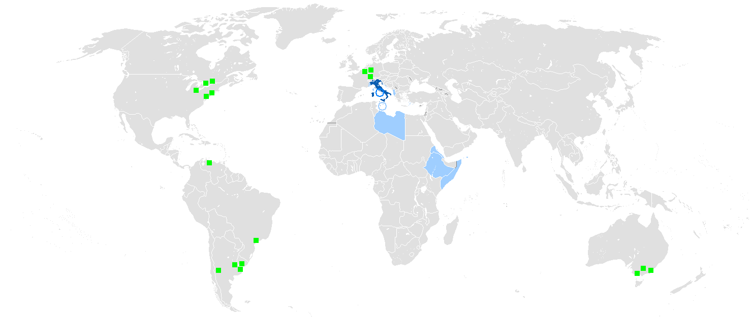 Legend: Dark blue: Native language Blue: Administrative language Light blue: Secondary language or non-official. green square: Italophone minorities